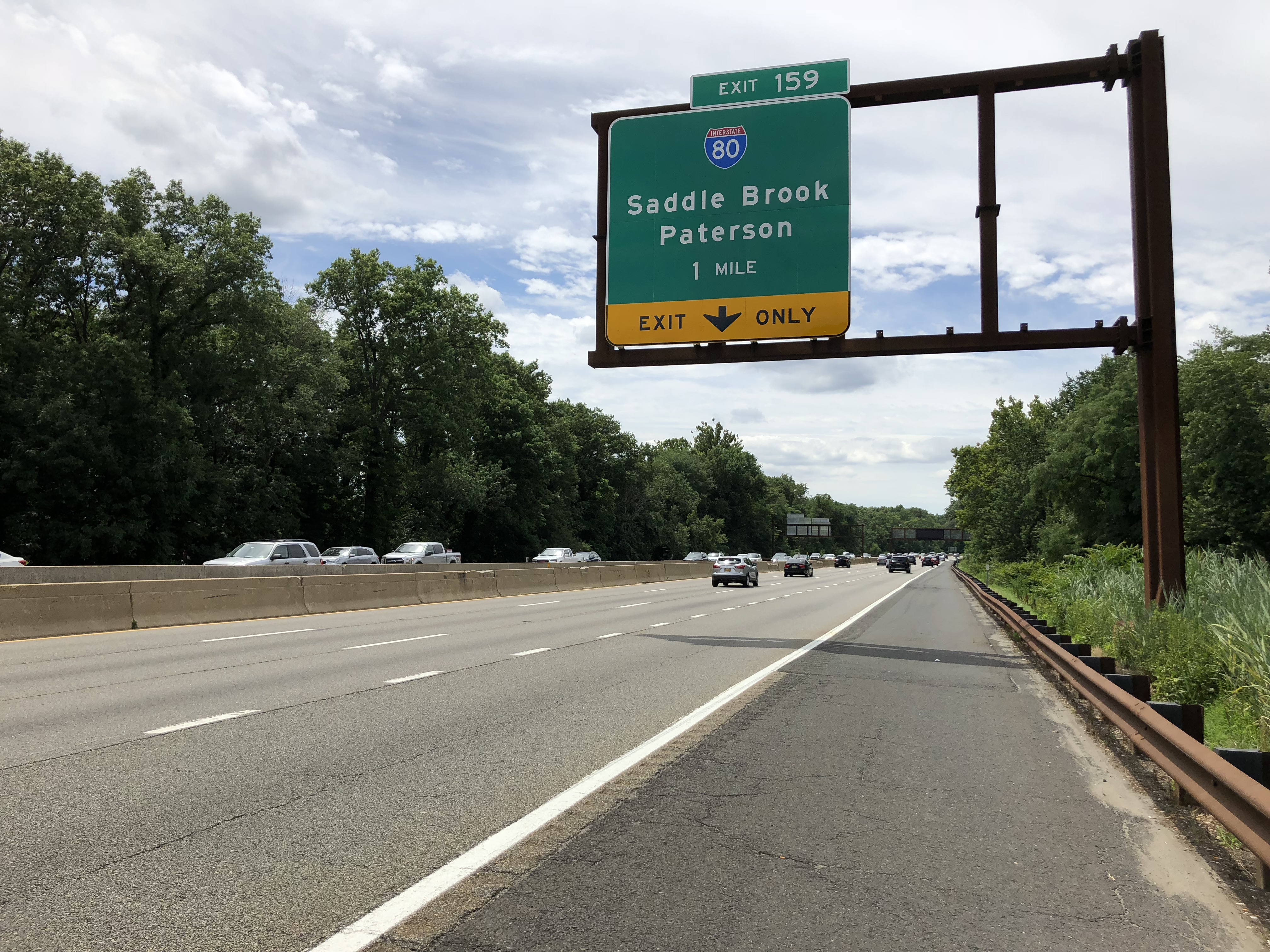 View south along New Jersey State Route 444 (Garden State Parkway) north of Exit 159 (Interstate 80, Saddle Brook, Paterson) in Rochelle Park Township, Bergen County, New Jersey